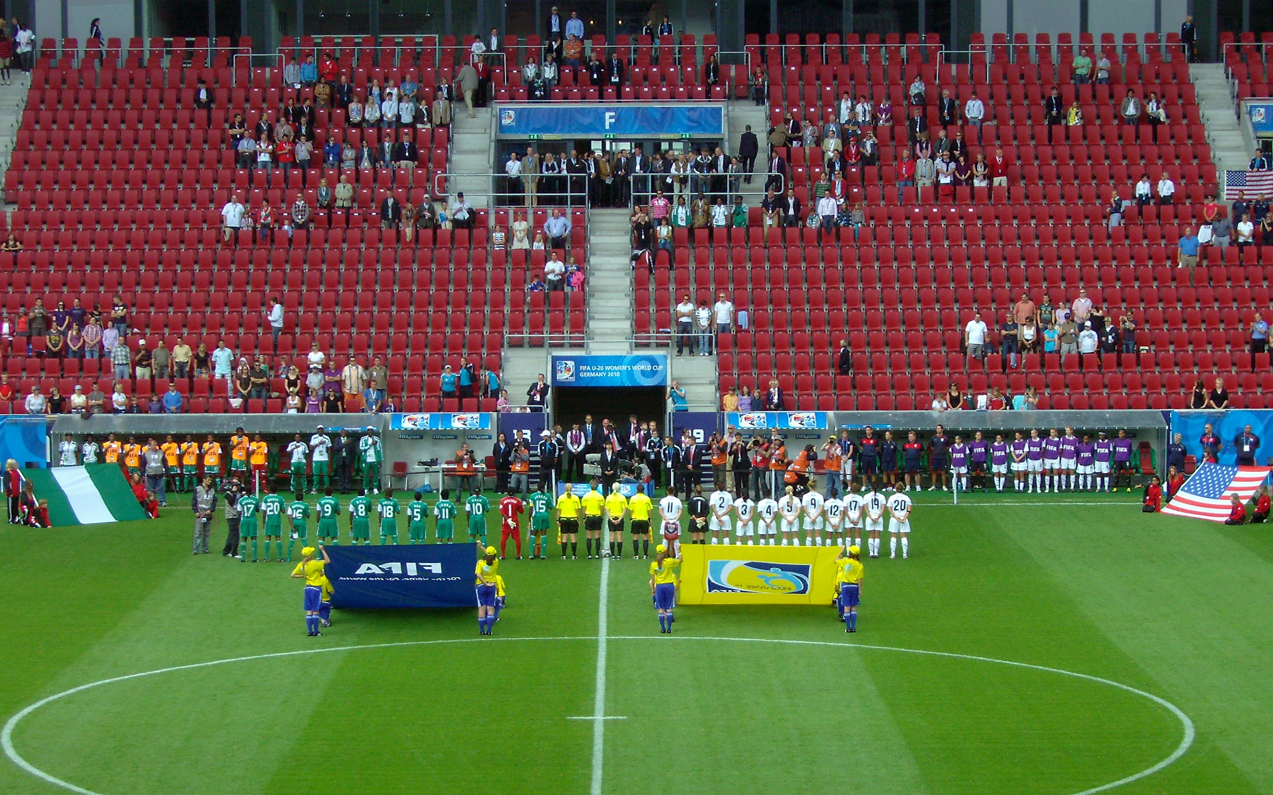 USA-Nigeria at 2010 FIFA U-20 Women's World Cup in Impuls Arena as “FIFA Women's World Cup Stadium Augsburg”: Teams of Nigeria and USA stand for the Arise, O Compatriots (national anthem of Nigeria).